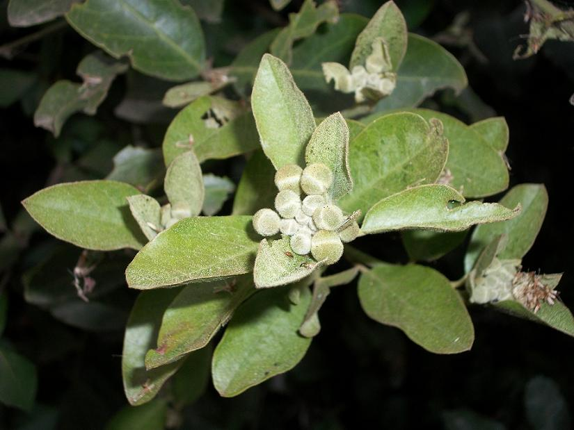 Buds and leaves of Capparis tomentosa growing as straggling climber in coastal bush; Amanzimtoti, South Africa